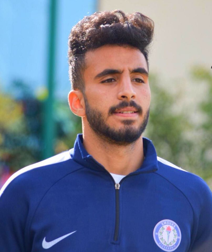 Mahmoud Fahmy with Egyptian Premier League side Smouha during a friendly match in early 2020.